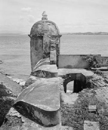 El Cañuelo, Isla de Cabras, Puerto Rico Historic American Buildings Survey, Frederik C. Gjessing Photographer April 19, 1954 DETAIL OF SENTRY BOX AND EMBRASURES, NORTHEAST CORNER. (HABS, PR,7-SAJU,11-5)